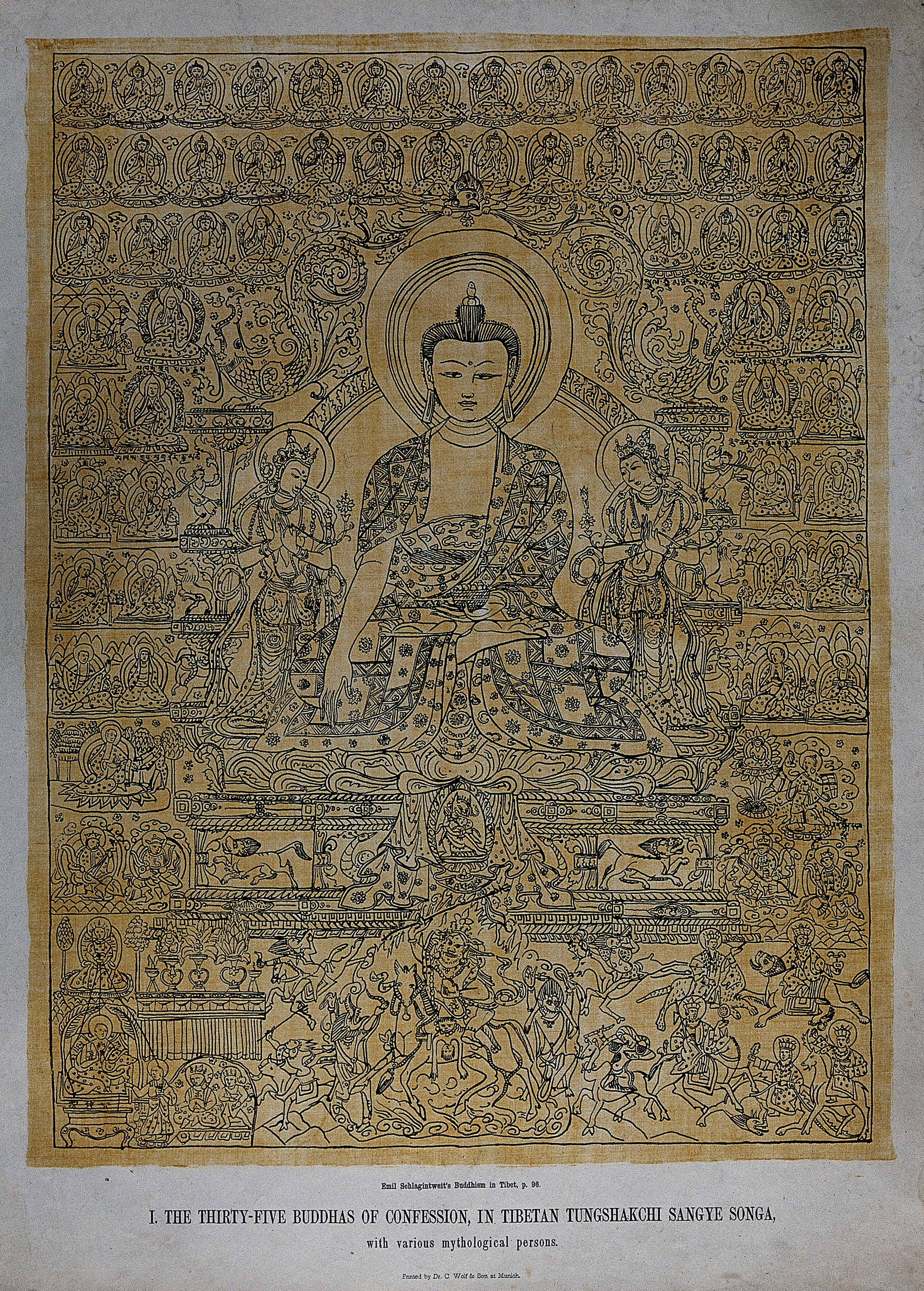 The thirty-five Buddhas of confession, in Tibetan Tungshakchi Sangye Songa, with various mythological persons. Chromolithograph. Imprint S.l. : [s.n.], [ca. 1863?] (Munich : Dr. C Wolf & Son) Iconographic Collections Keywords: Buddhism; Buddhist; Tibet; Mythology; Icon